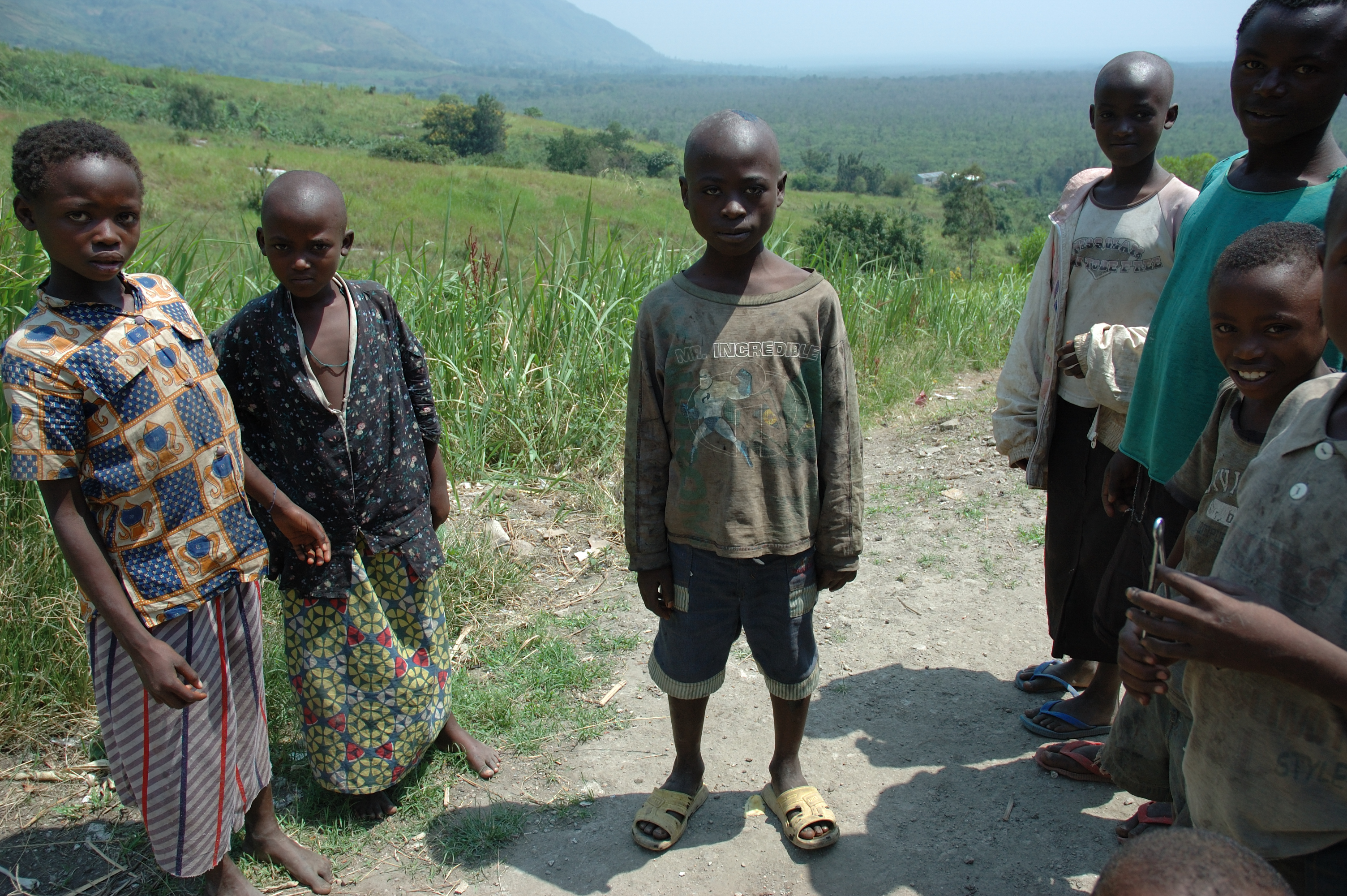 The kids were playing around the health centre, on a terrace overlooking the plains of the Virunga national park, empty except for militia from the Forces Democratique pour la Liberation de Rwanda, FDLR. A hutu militia that has been in the east of DRC for more than twenty years.